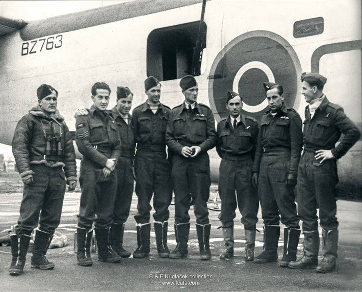 Place: Beaulieu airfield, in Hampshire. Left to right: Fonta Stefan, Schwarz Ivan, Hahn Jindrich, Ludikar Marcel, Dolezal Oldrich,Hanus Zdenek, Prochazka Robert.